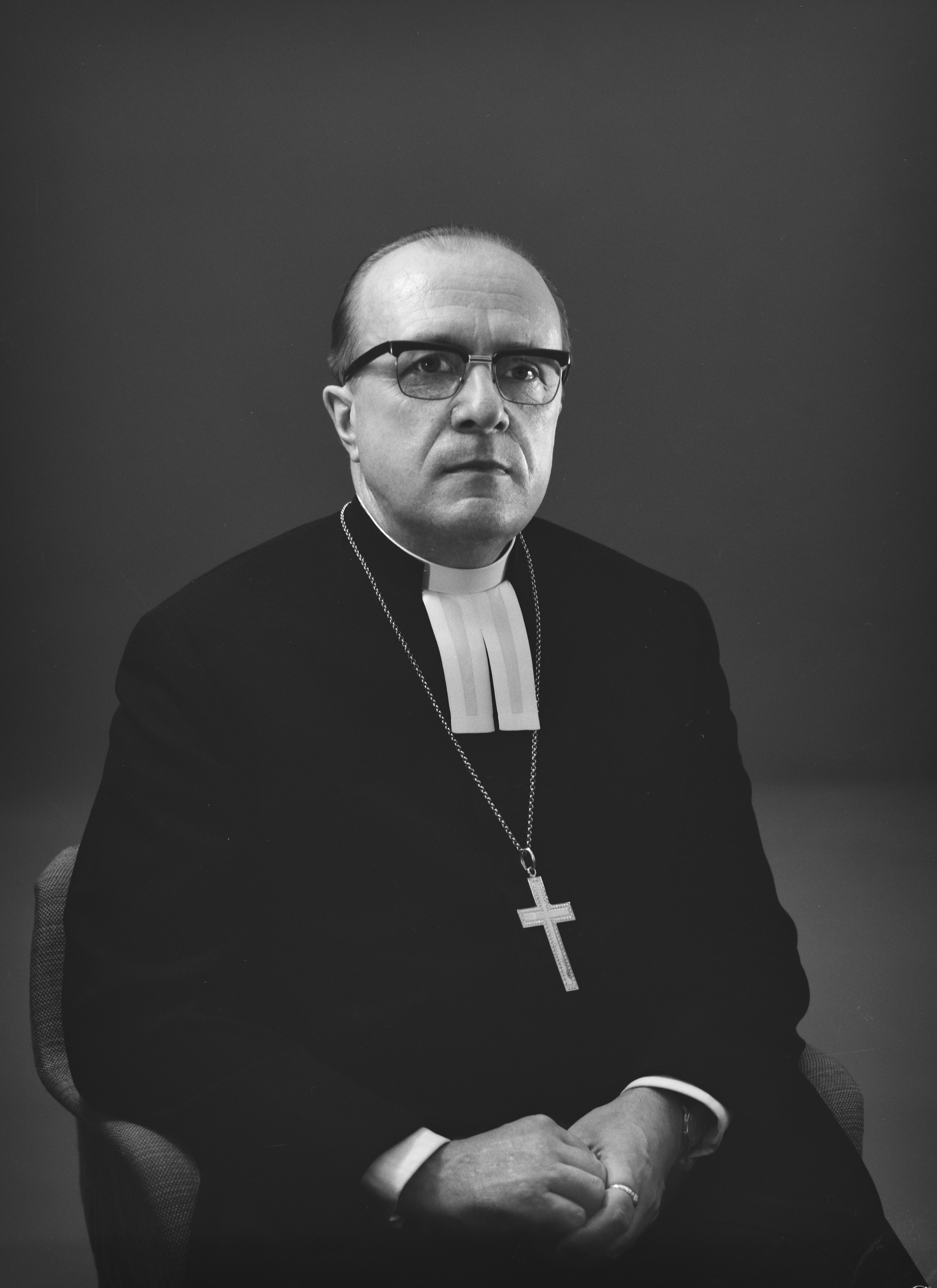 Photograph of the Finnish theologian Aarre Lauha (1907–1988).